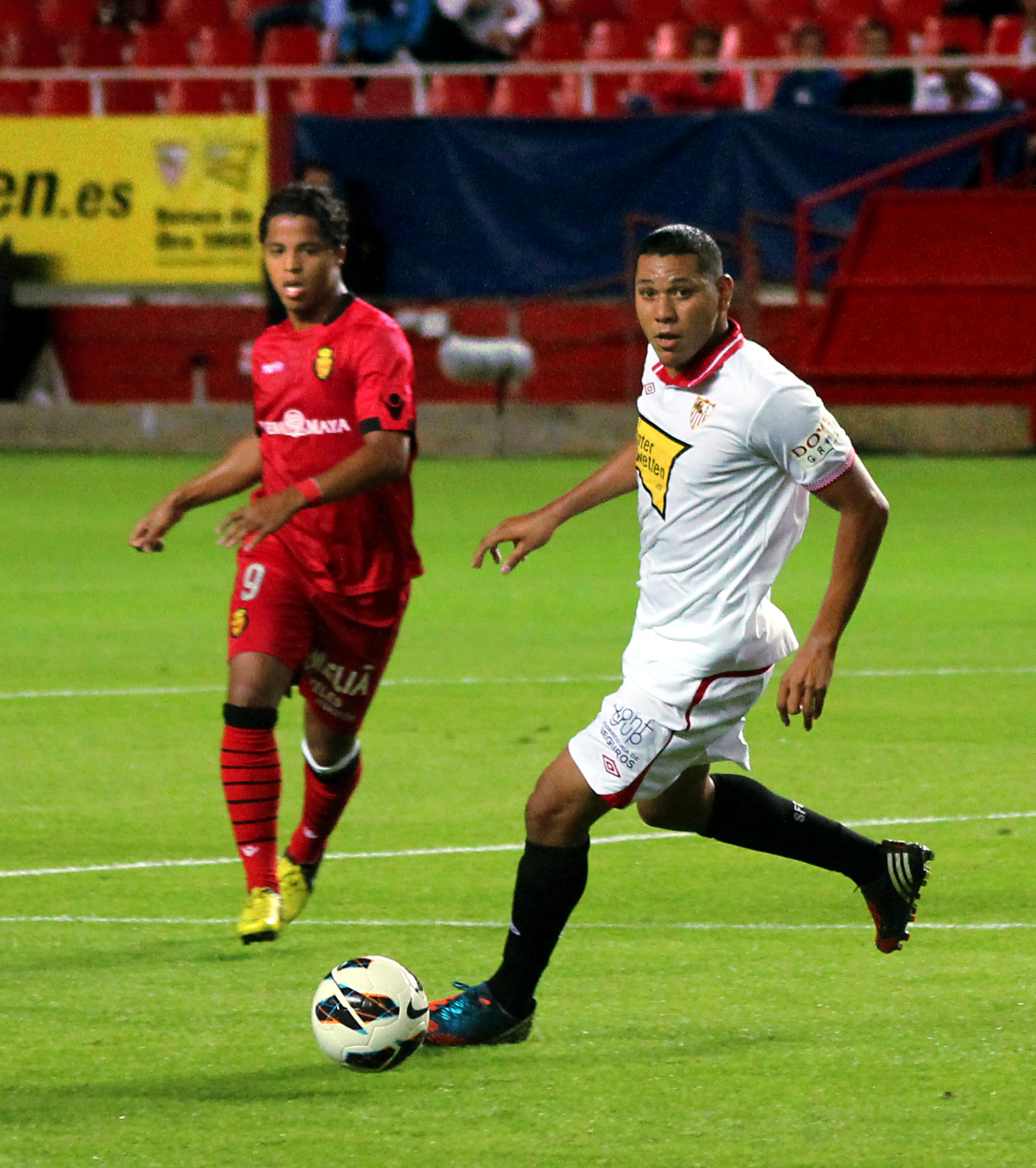 Dutch footballer who plays for Sevilla FC in La Liga